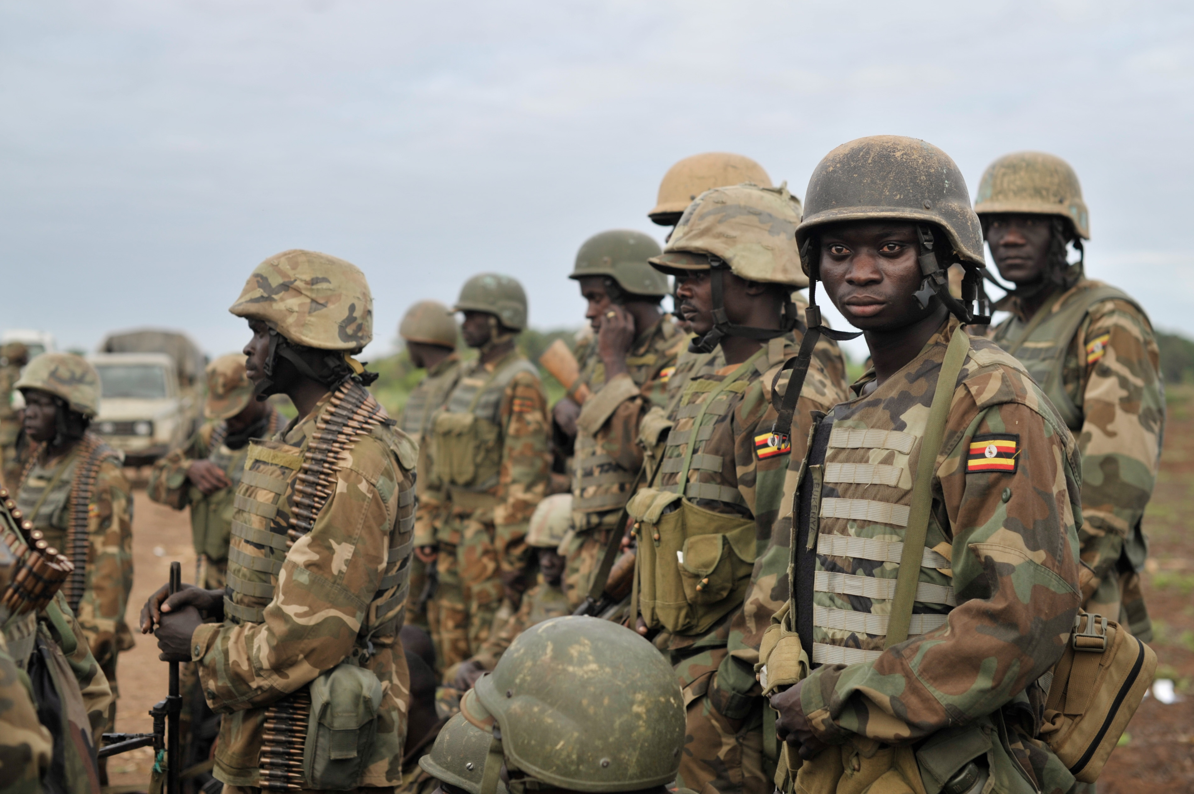 Ugandan soldiers, as part of the African Union Mission in Somalia, prepare to sweep the town of Buulomareer in the Lower Shabelle region of Somalia on August 31. Buulomareer was captured late yesterday by African Union forces as part of the ongoing offensive, Operation Indian Ocean. AMISOM Photo / Tobin Jones